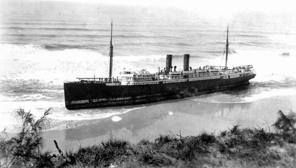 Maheno (ship) 'Maheno' aground on Fraser Island . (Description supplied with photograph).